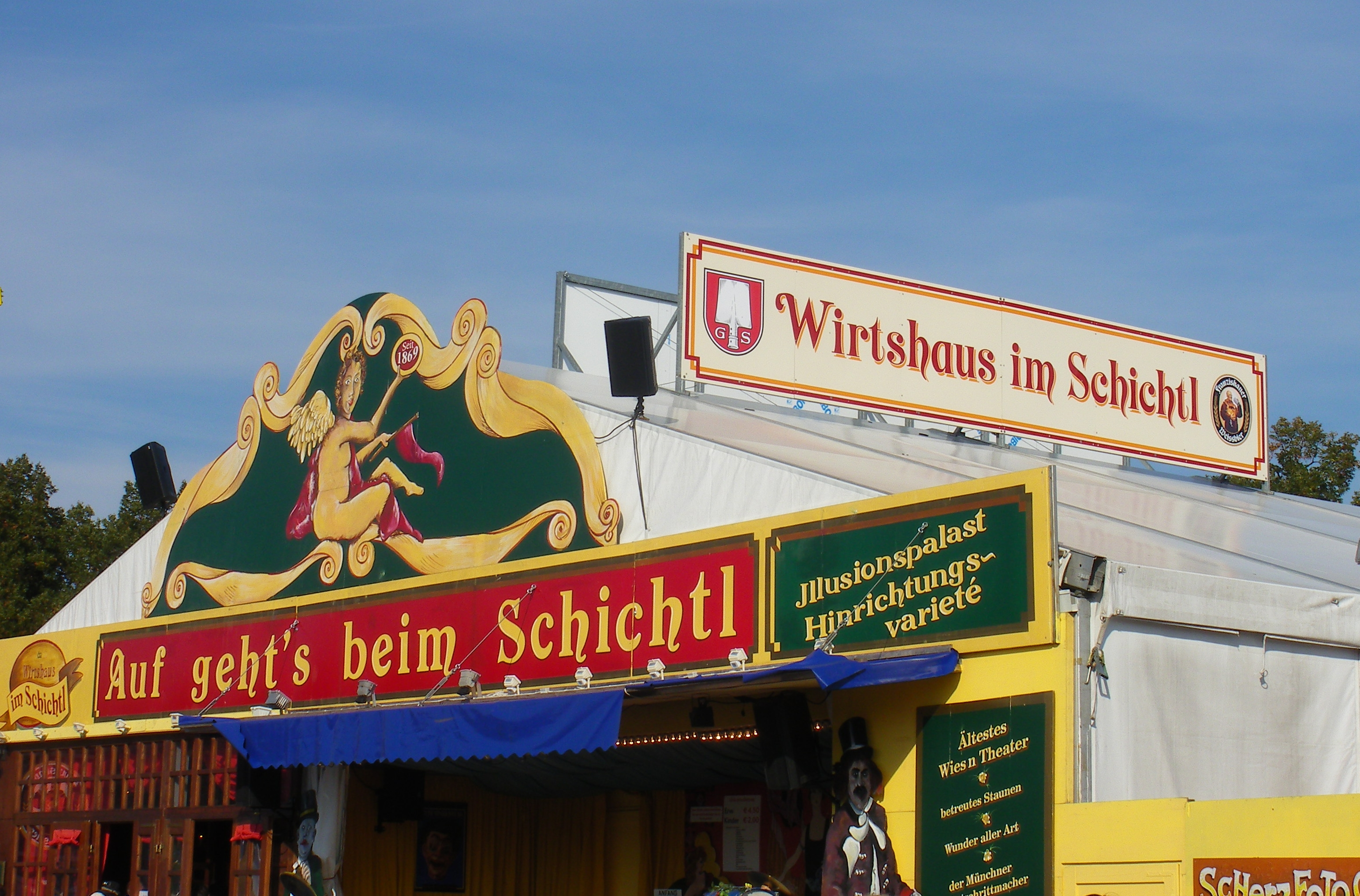 Schichtl, Oktoberfest 2011